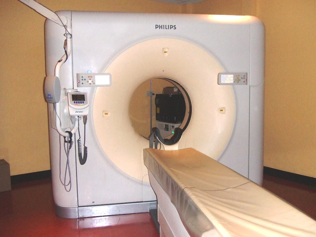 A Philips 64 slice 'Brilliance' Scanner